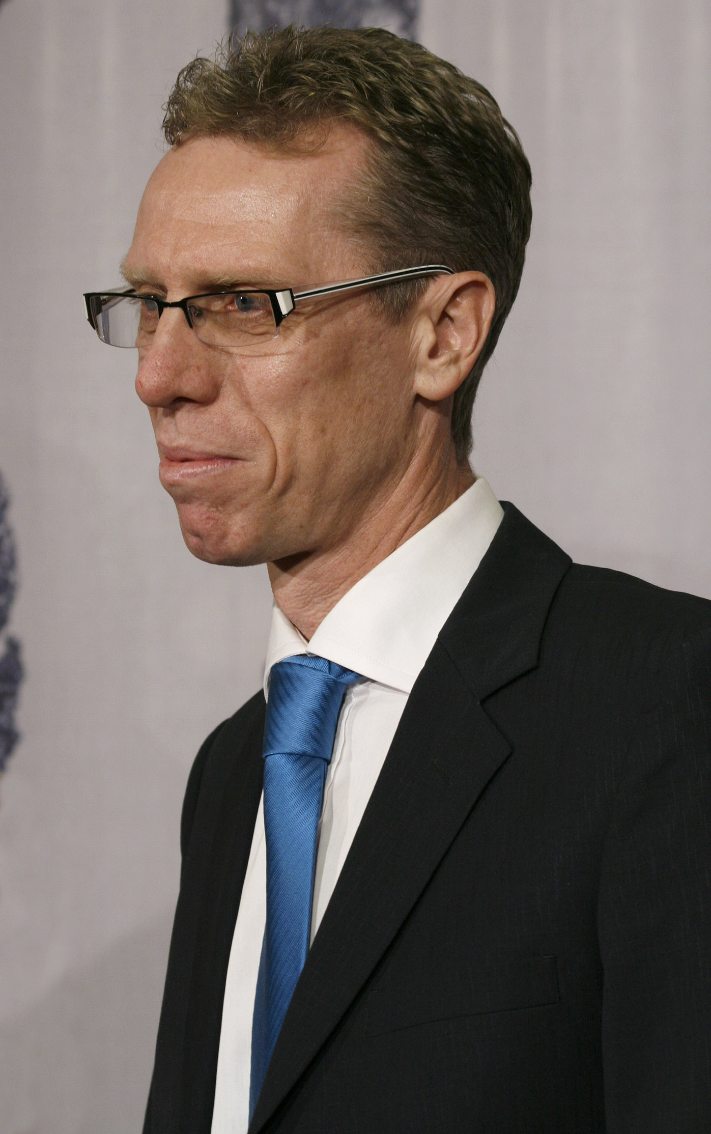 Austrian football player and coach Peter Stöger at the Galanacht des Sports (Gala-Night of Sports), where the Austrian Sportspersonalities of the Year 2008 were honoured.